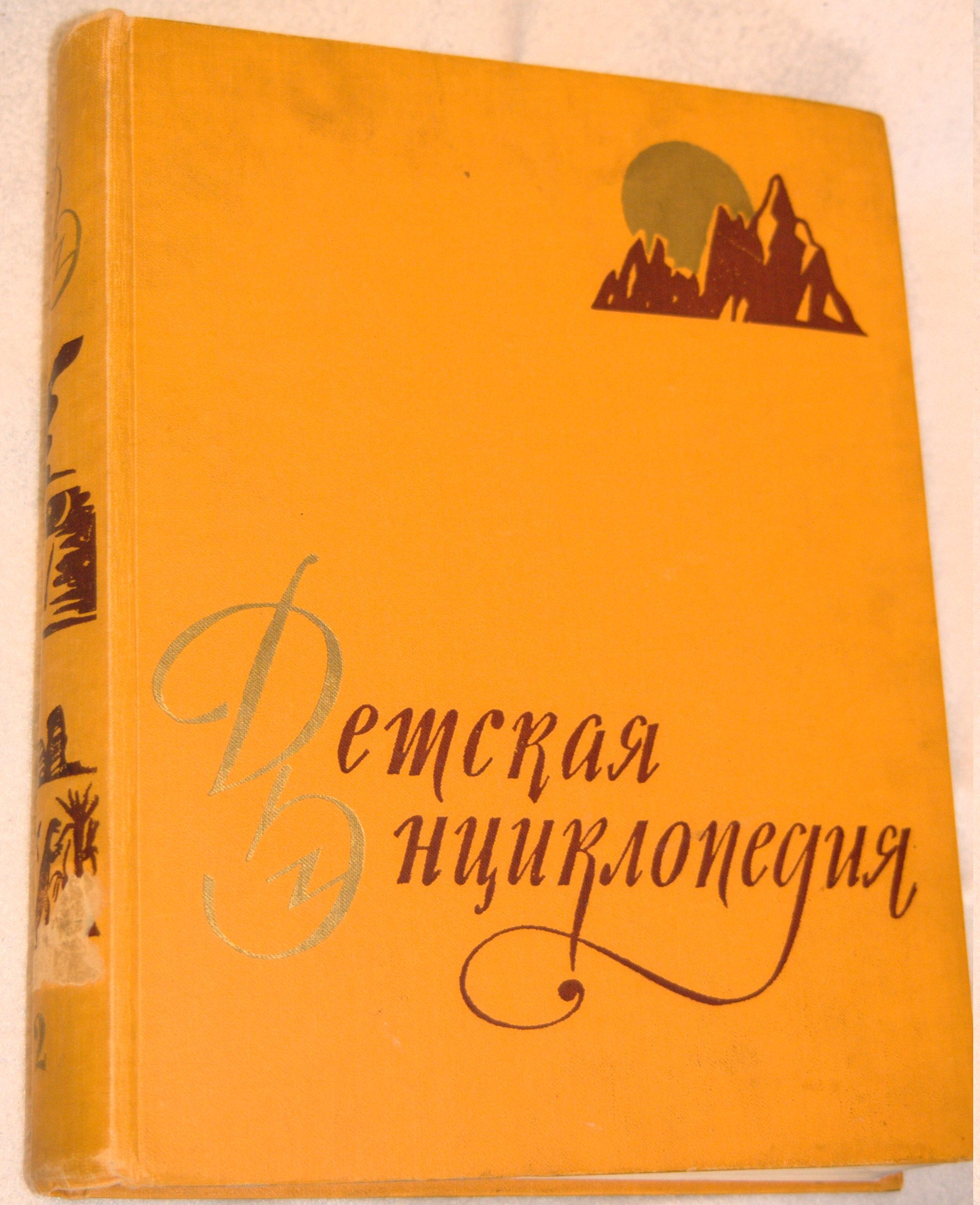 Soviet Child Encyclopedia